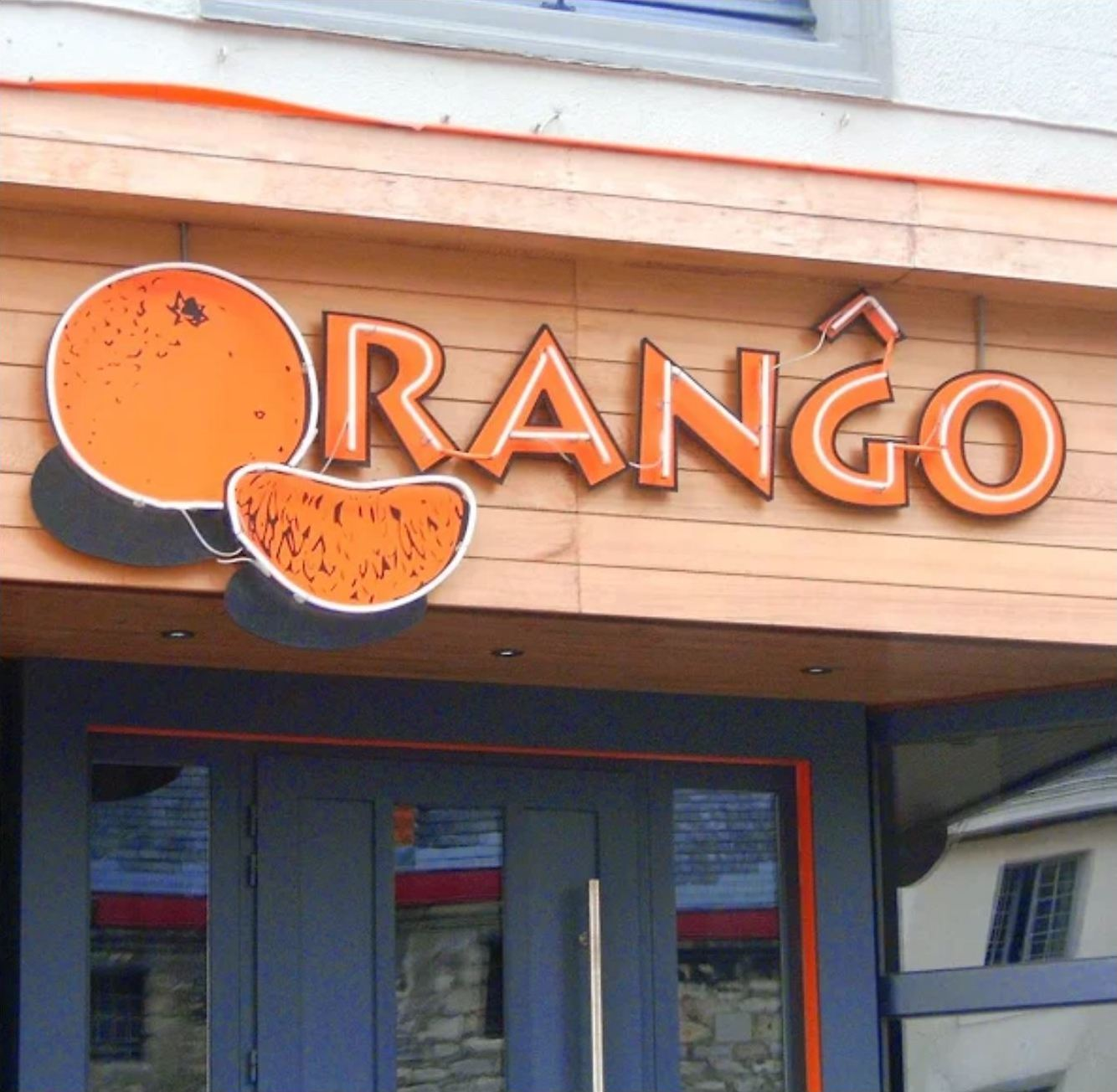 Halle, Belgium - pub with a name in